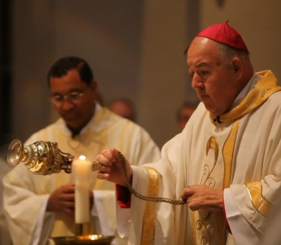 Bishop Choby with Thurible